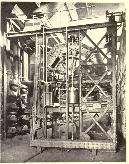 The use of a stoking machine in the manufacture of coal gas.